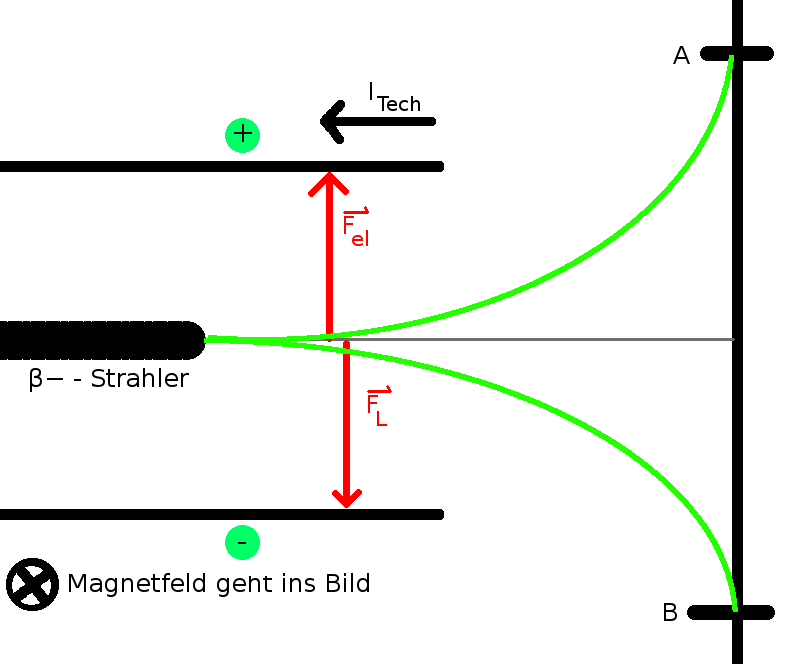 Experiment of Bucherer